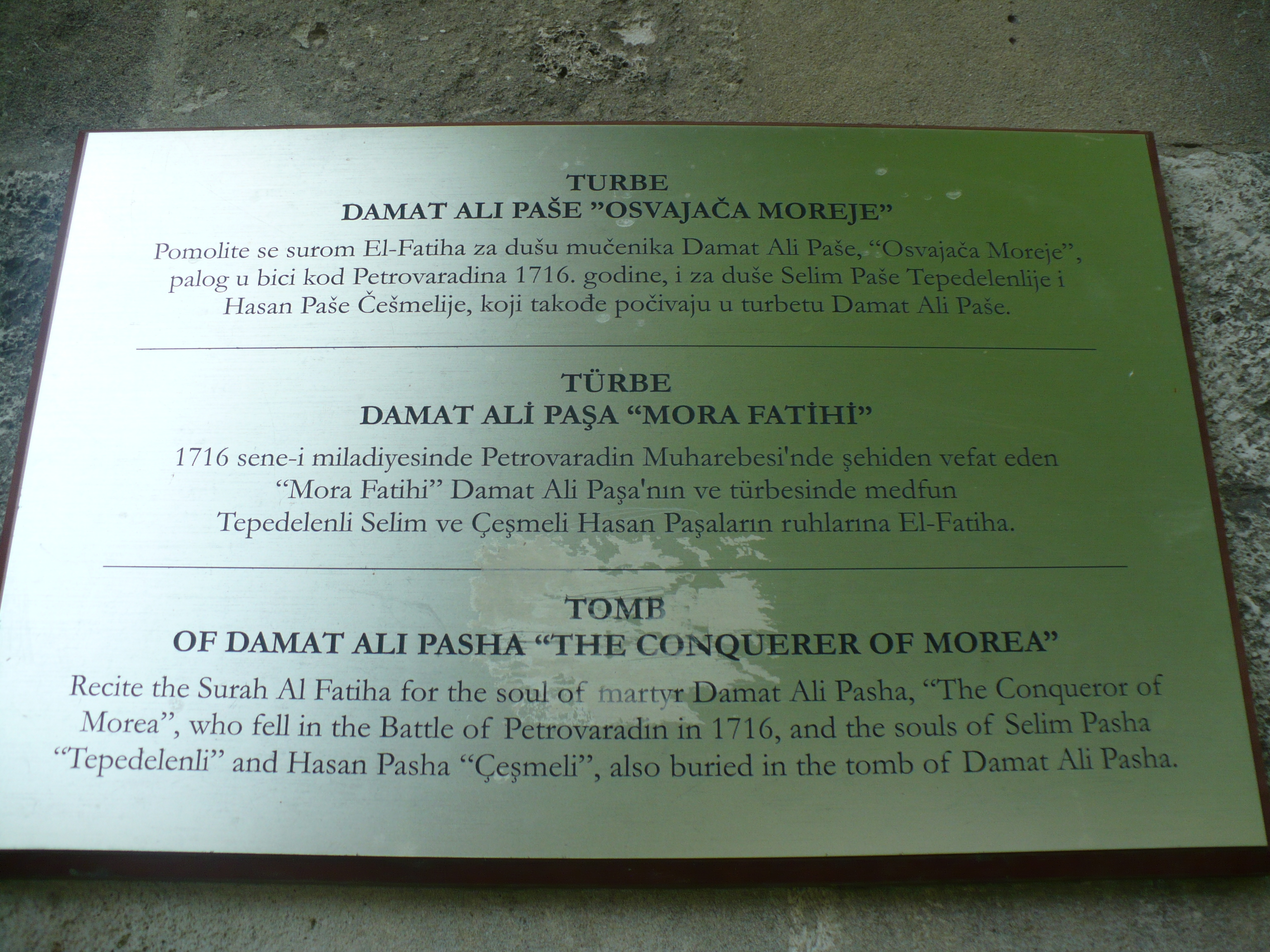 Damad Ali-Pasha Turbe, Belgrade, Serbia